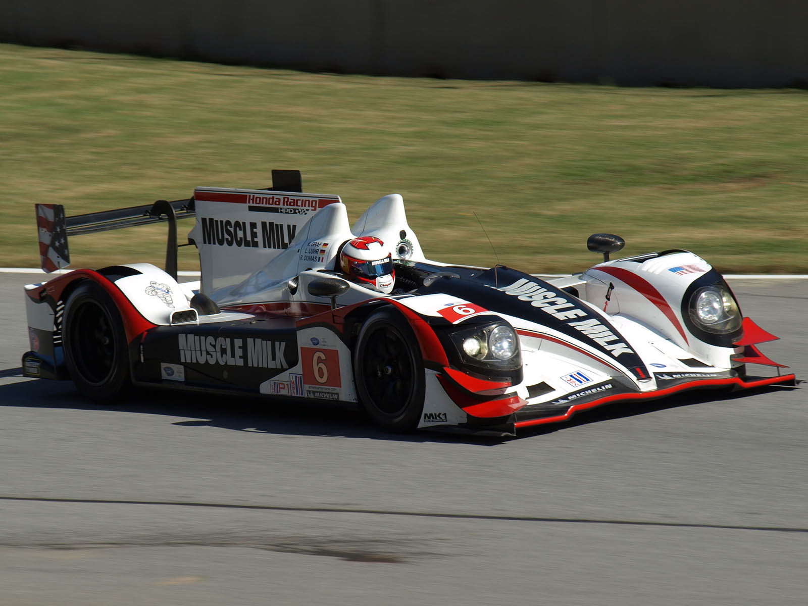 Lucas Luhr in the Muscle Milk Pickett Racing HPD ARX-03a during qualifying for the 2012 Petit Le Mans